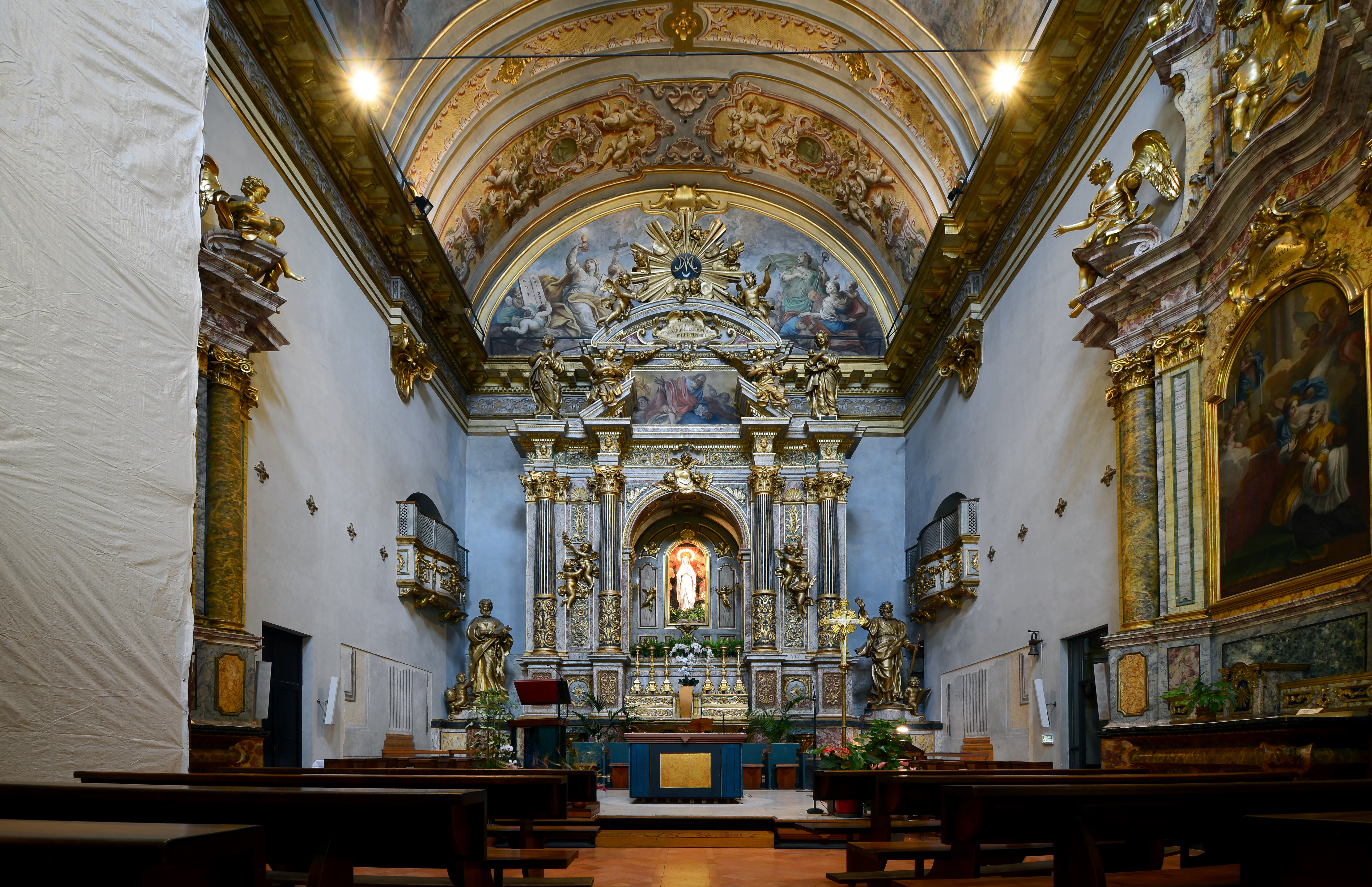 Santa Maria sopra Minerva (Assisi) - Nave